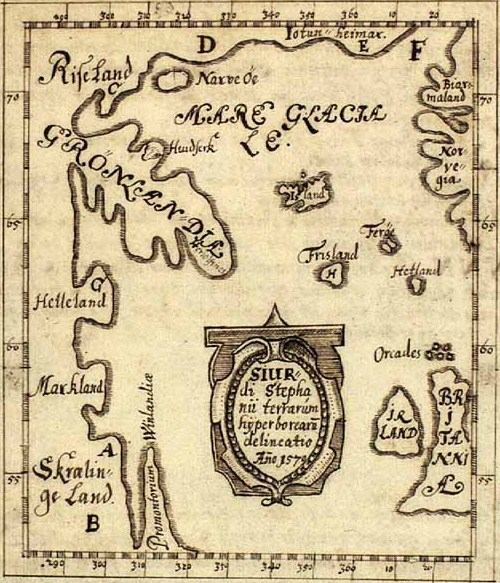 Map depicting the Atlantic Ocean, from Norse mythology sources.